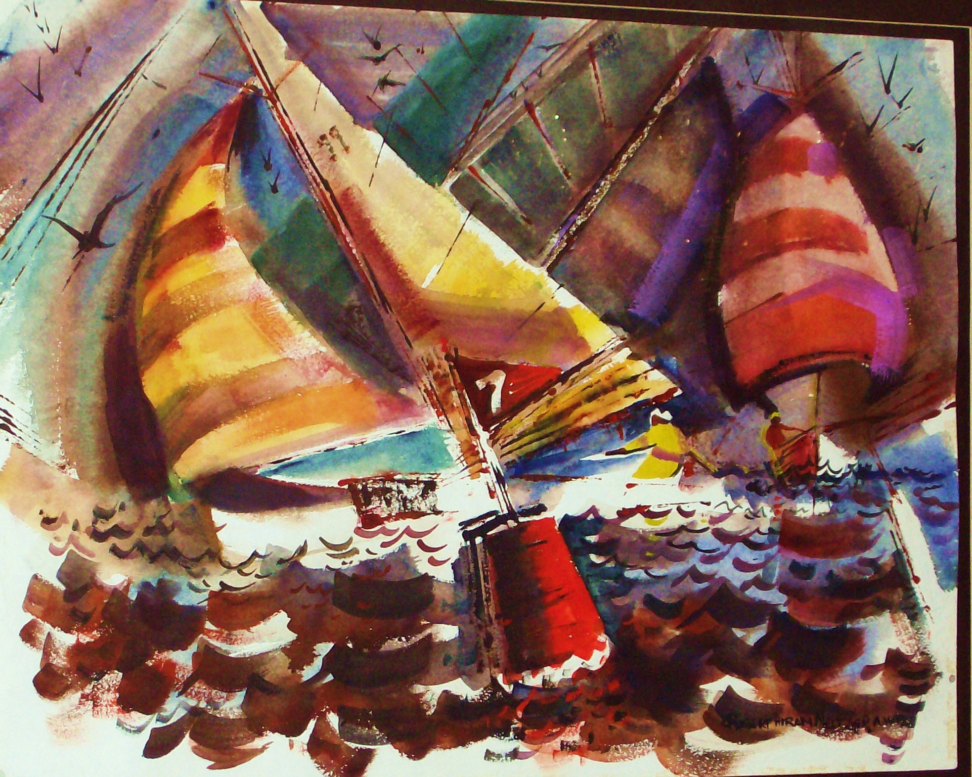 Robert H. Meltzer (American Artist, 1921-1987) "Regatta on the Severn, Annapolis, MD)